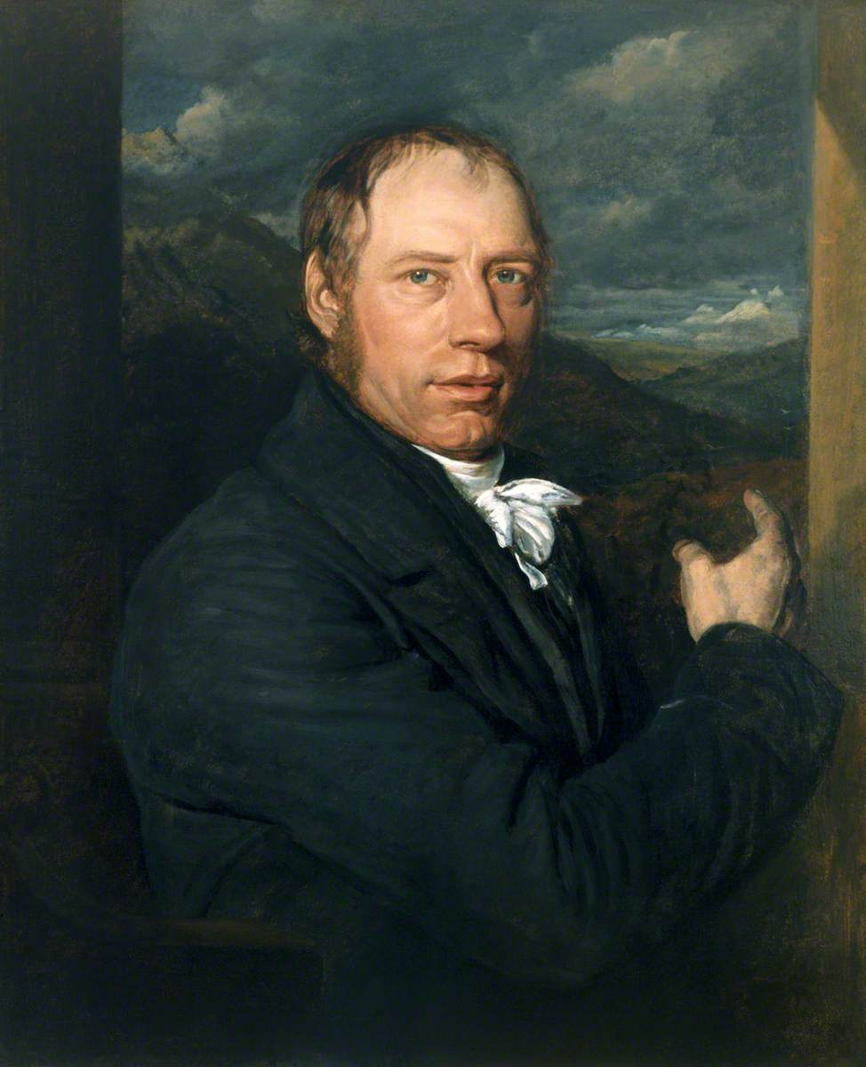 Photograph of a portrait of Richard Trevithick, engineer